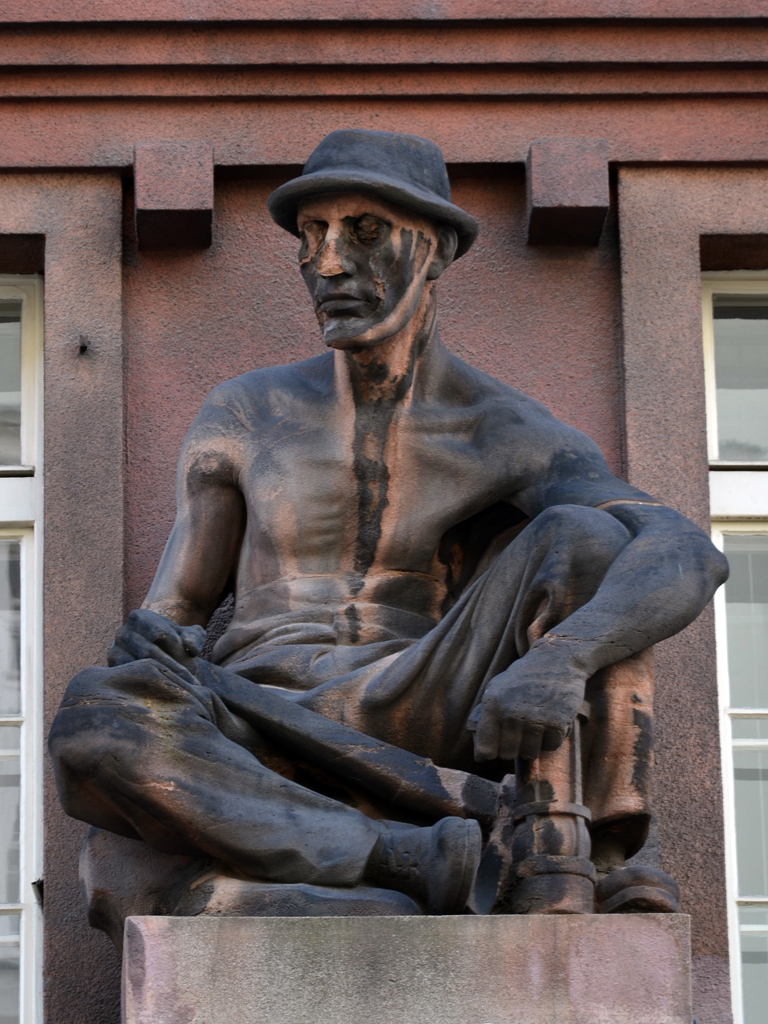 Sculpture by Jaroslav Brůha, Allegory of Mining